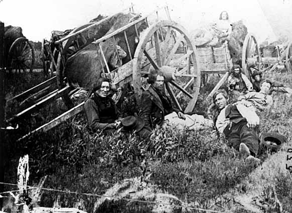 Métis drivers with Red River ox carts, presumably in Minnesota